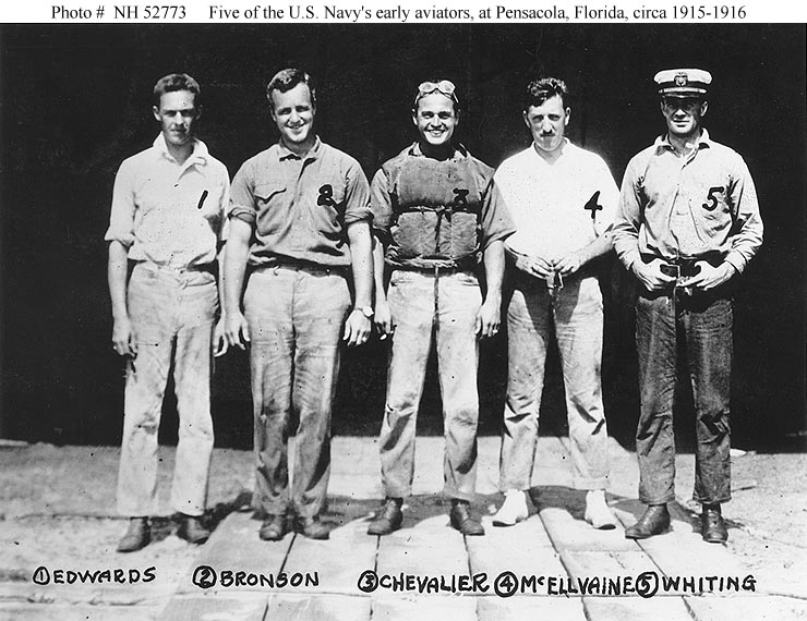 Five early American naval aviators at the Naval Aeronautic Station (later Naval Air Station Pensacola) in Pensacola, Florida. From left to right: Lieutenant junior grade Walter A. Edwards USN, Lieutenant junior grade Clarence K. Bronson USN, Lieutenant junior grade Godfrey deC. Chevalier USN, Second Lieutenant William M. McIlvain USMC, and Lieutenant junior grade Kenneth Whiting USN